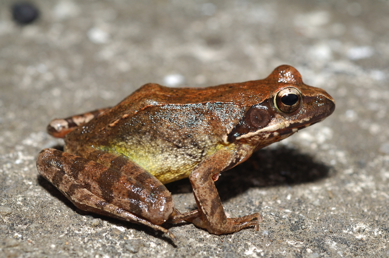 Rana dybowskii